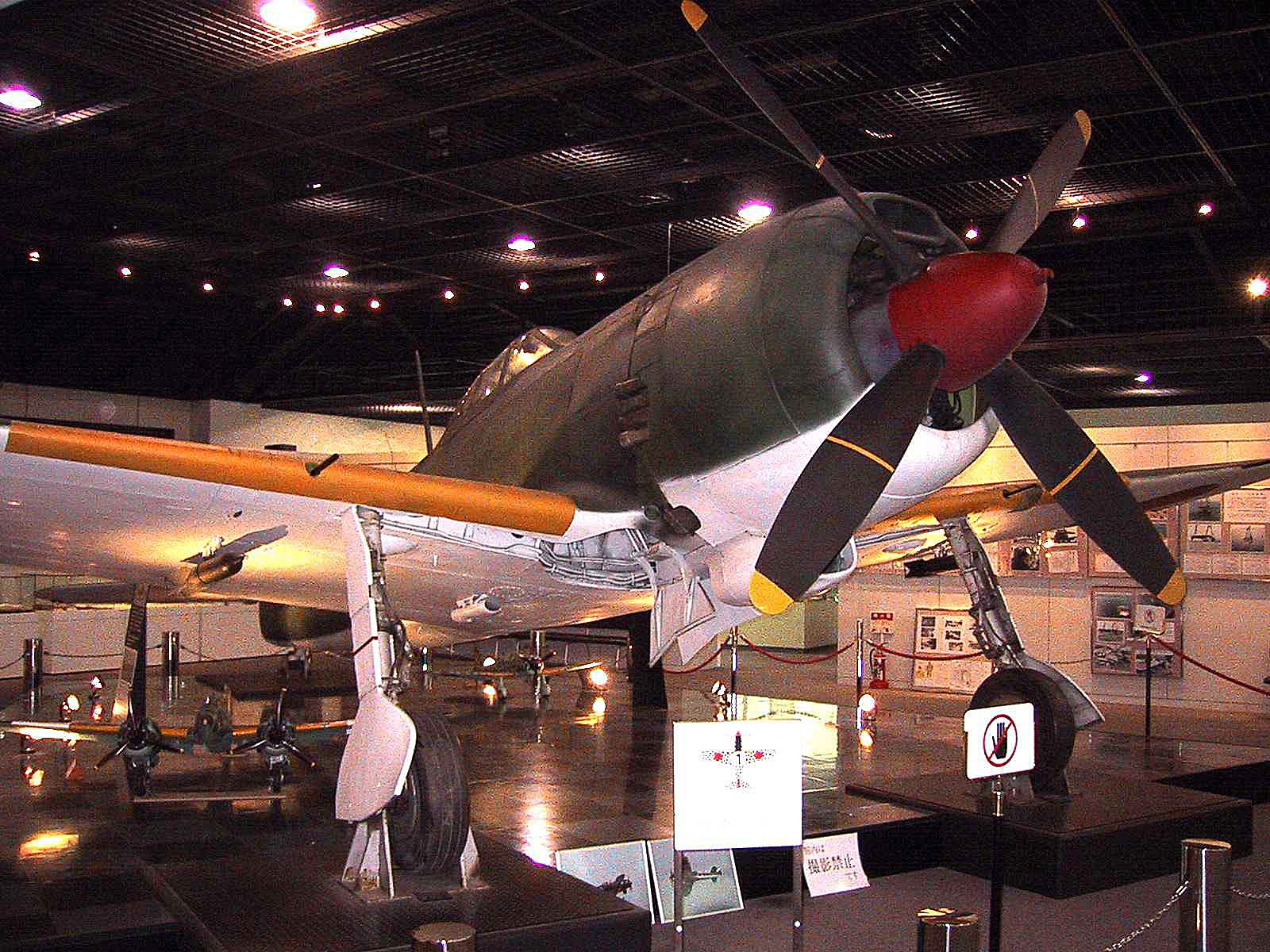 Ki -84 "Hayate" Exhibit Room